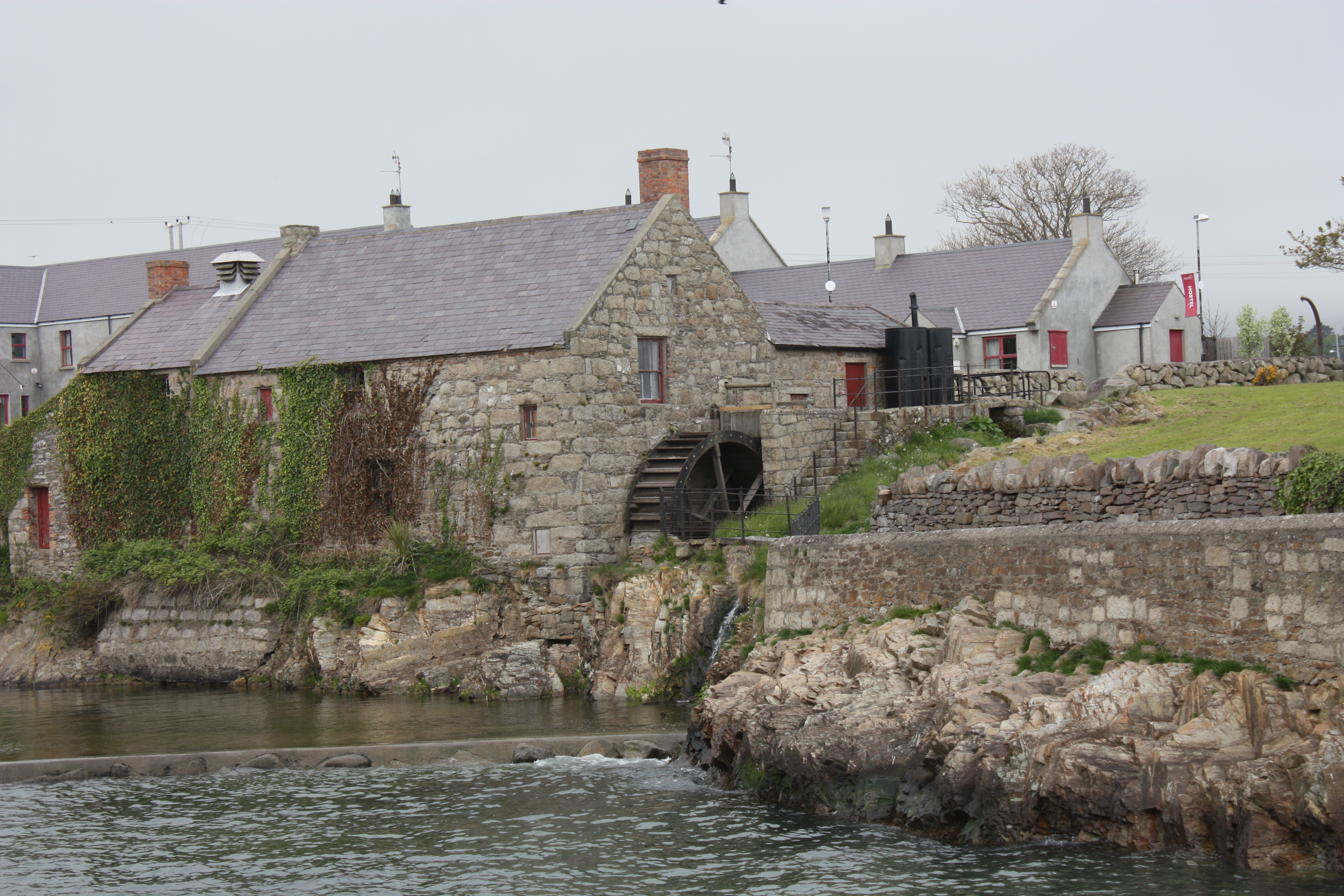 Annalong Corn Mill, Annalong, County Down, Northern Ireland, May 2010 (viewed from Harbour)